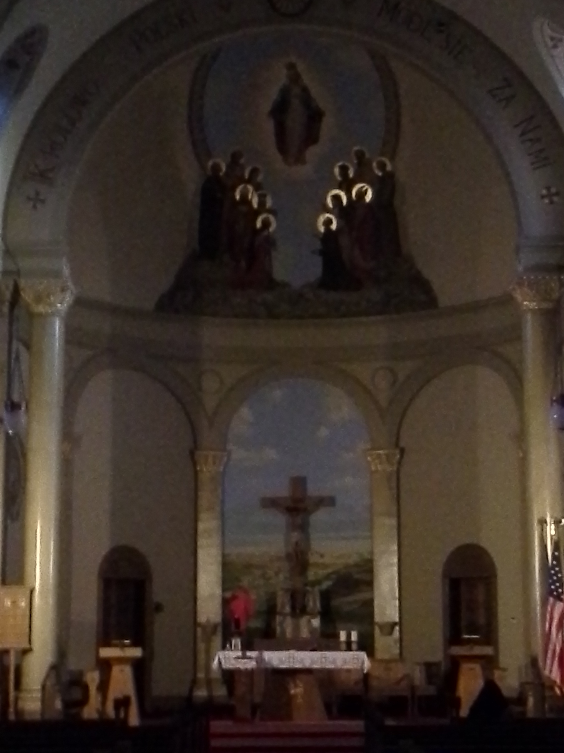 altar on good friday 2014 in St. Adalbert's Parish (Providence, Rhode Island)